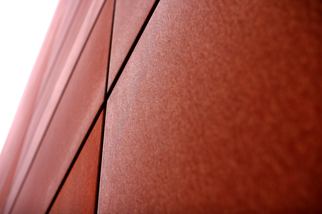 COR-TEN-Steel